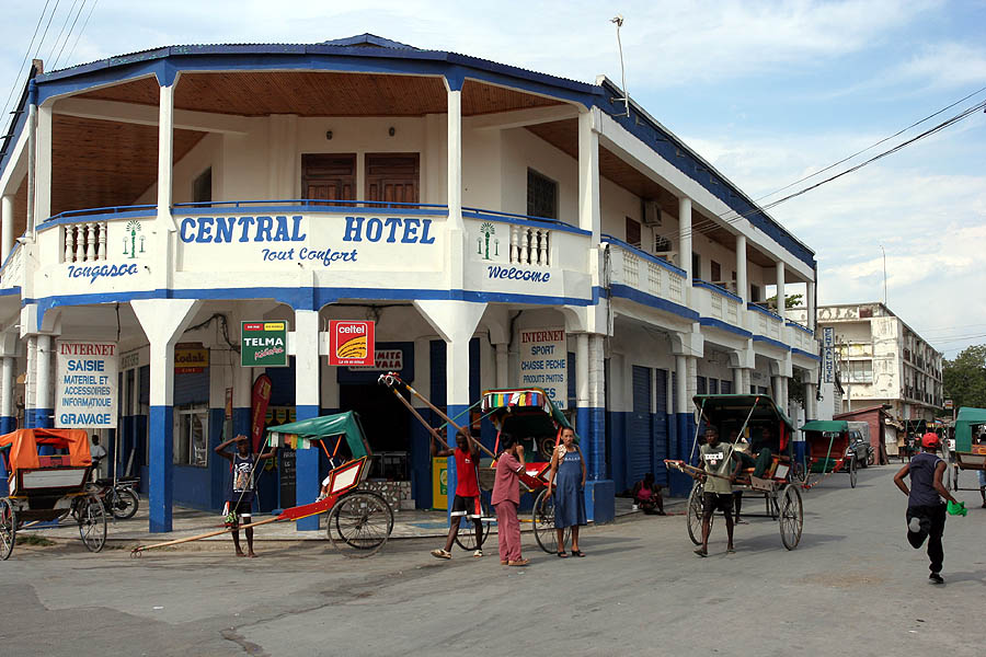 The city centre of Toliara (Tuléar), Madagascar, as of 2007.